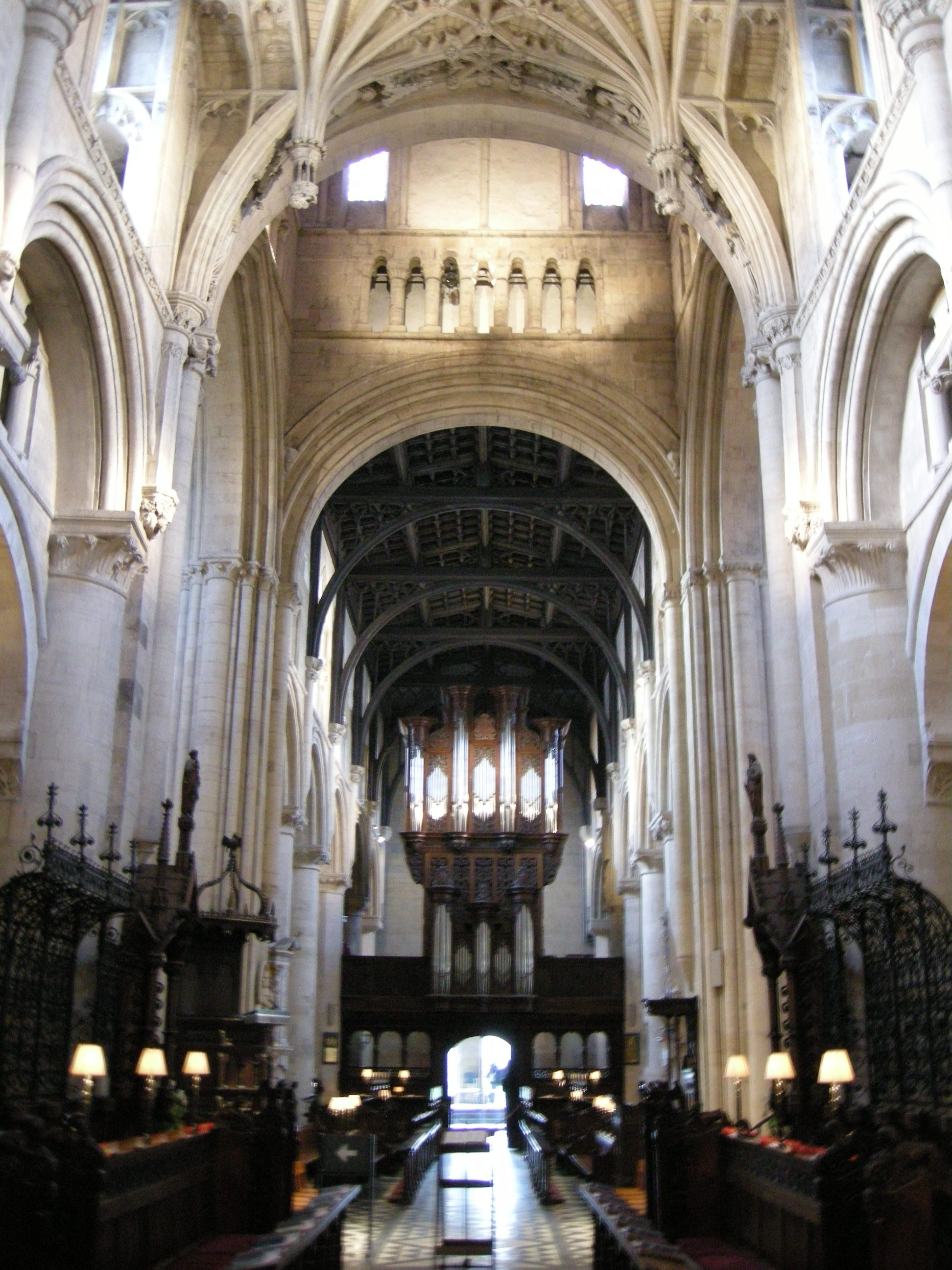 Oxford cathedral